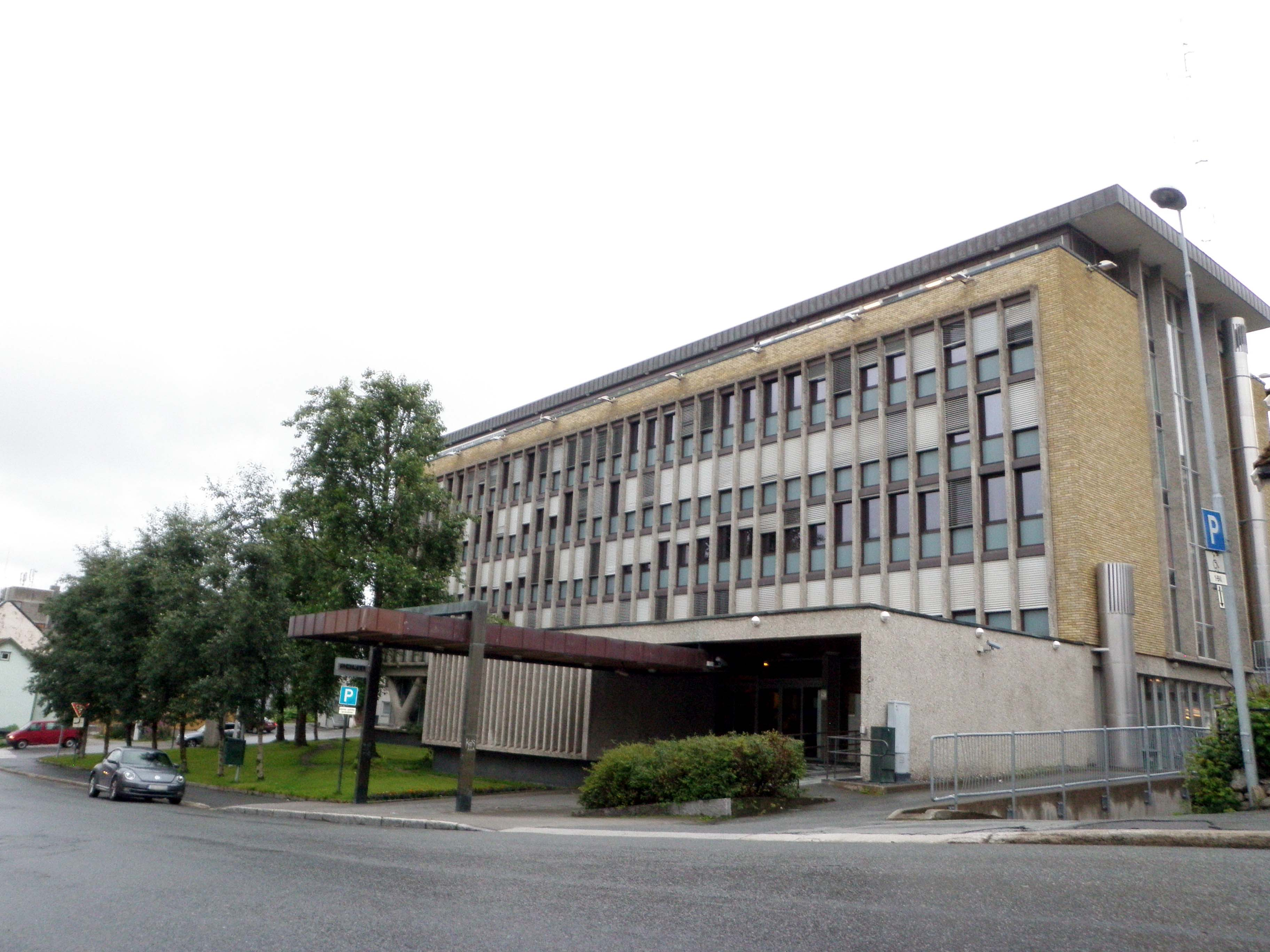 Tromsø Police Station, headquarters of Troms Police District, in Tromsø, Norway.